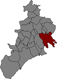 Location of Reus in Baix Camp